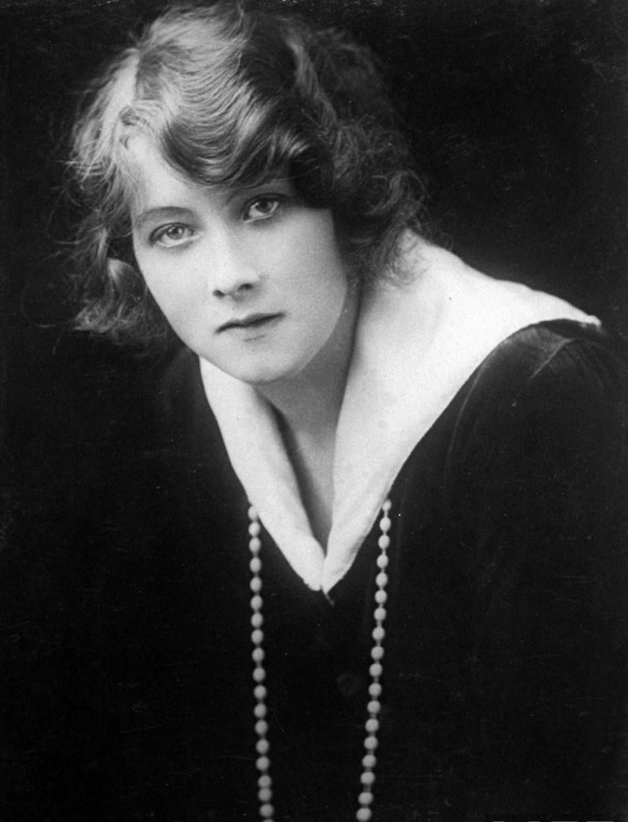 Portrait of British actress Alma Taylor